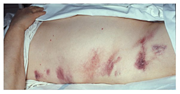 Hemorrhagic pancreatitis - This 40-year-old woman complained of worsening epigastric pain of five days’ duration. On examination, she had hypotension, a board-like abdomen, and extensive ecchymoses over her right loin.